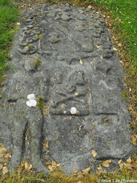 Nobber graveyard - slab with a coat of arms, below which is a skull and crossbones, bell etc. These motifs are flanked by a male and a female figure. The male has a pointed cap.